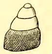 Reticulations on the protoconch of Theta chariessa (R. B. Watson, 1881); family Raphitomidae